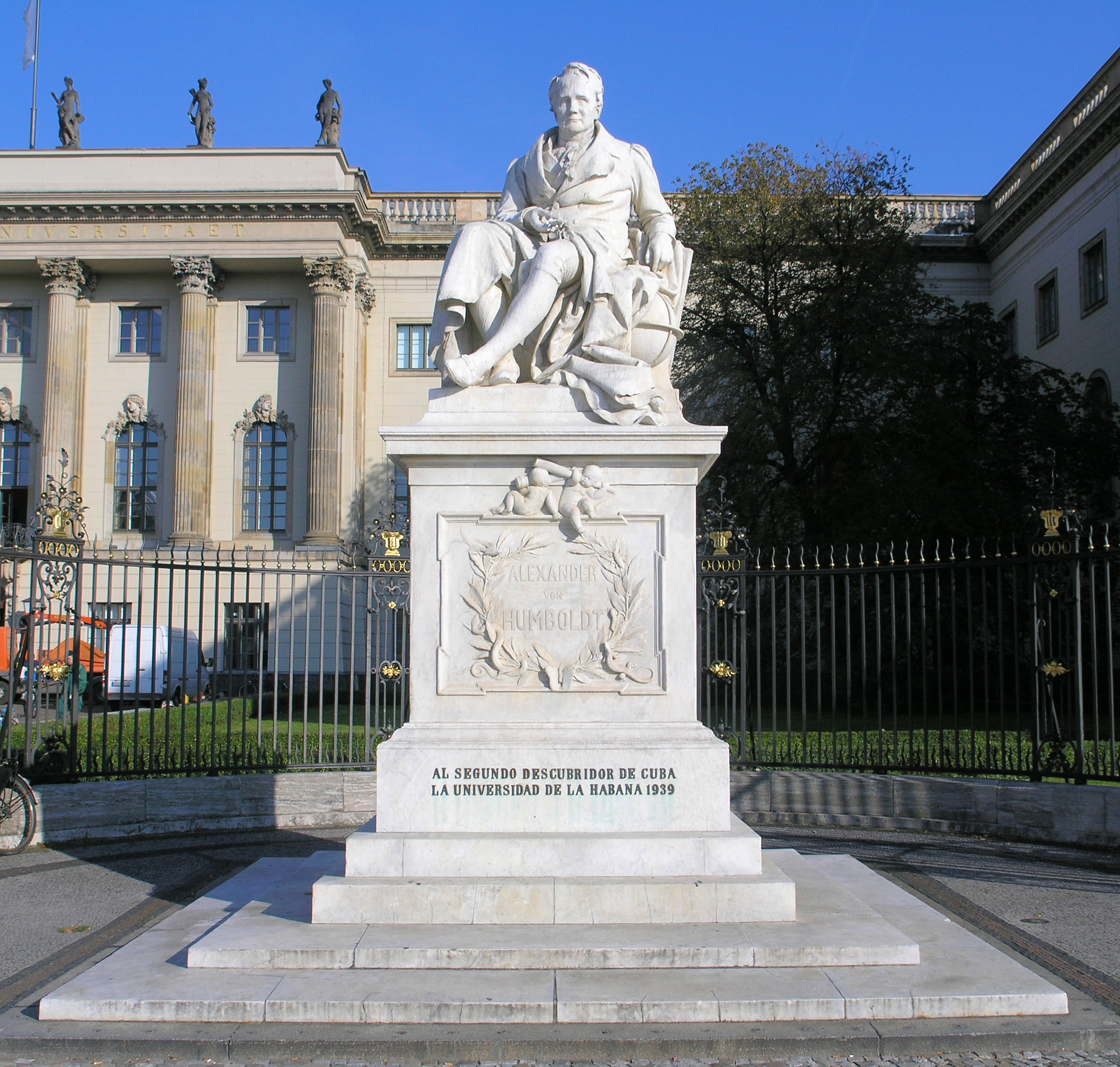 Memorial, "Alexander von Humboldt" by Reinhold Begas, 1882/83, Unter den Linden 6, Berlin-Mitte, Germany